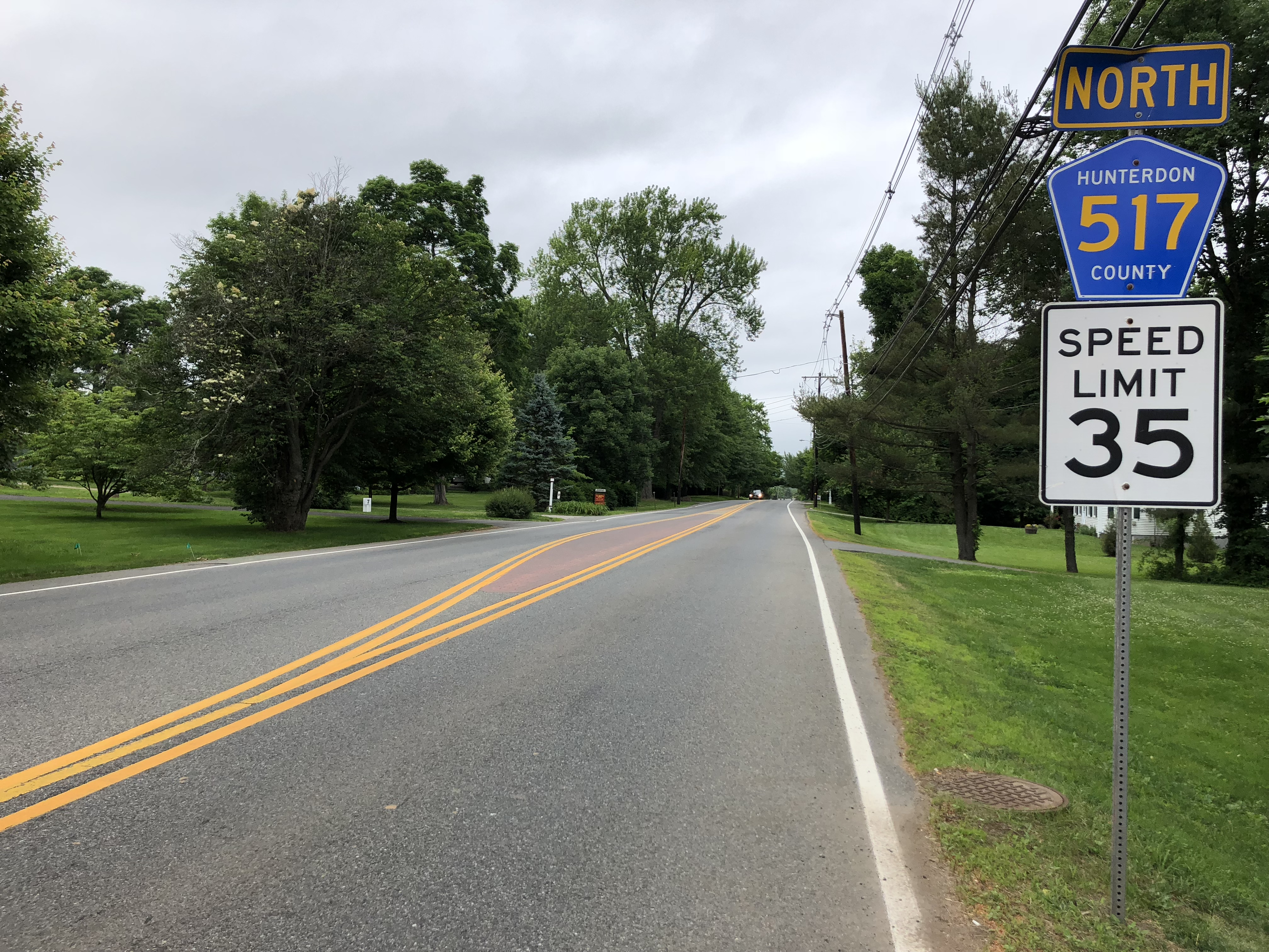 View north along Hunterdon County Route 517 (Oldwick Road) just north of Hunterdon County Route 523 (Lamington Road) in Tewksbury Township, Hunterdon County, New Jersey